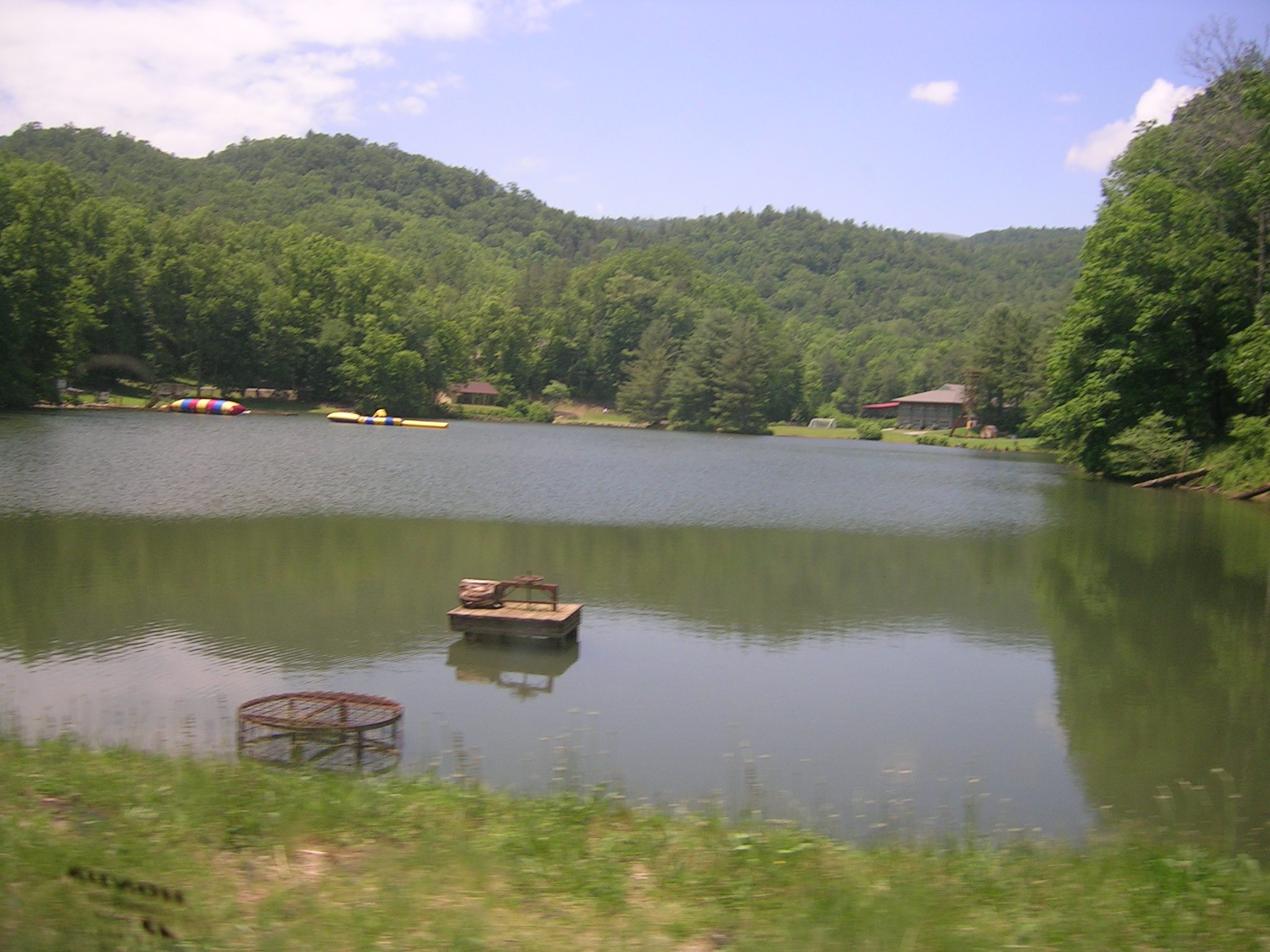 I took this picture at Camp Ramah Darom in 2005. I am using it for the camp's page.